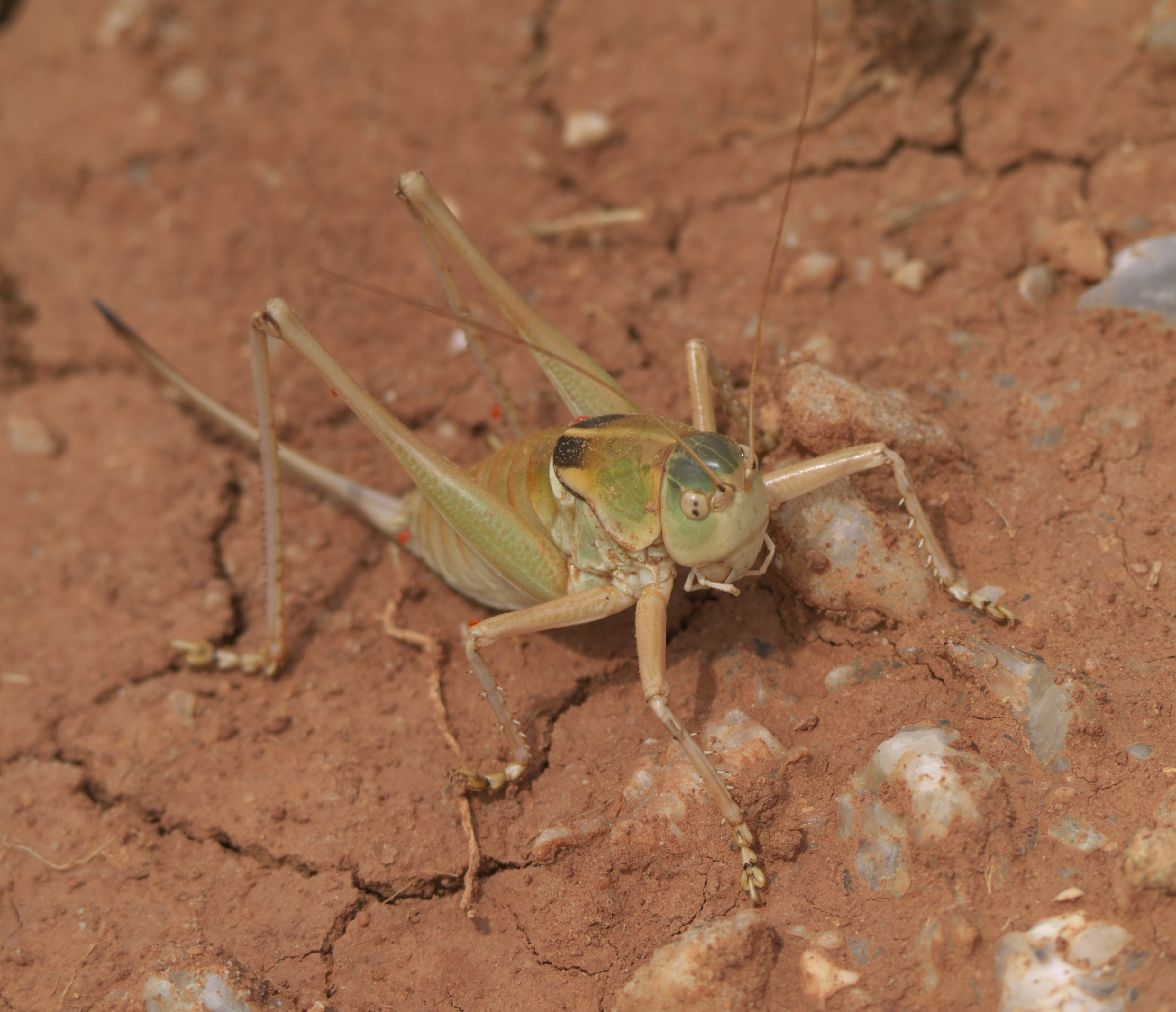 Pardalophora haldemanii, Haldeman's Grasshopper, ID Confidence: 87